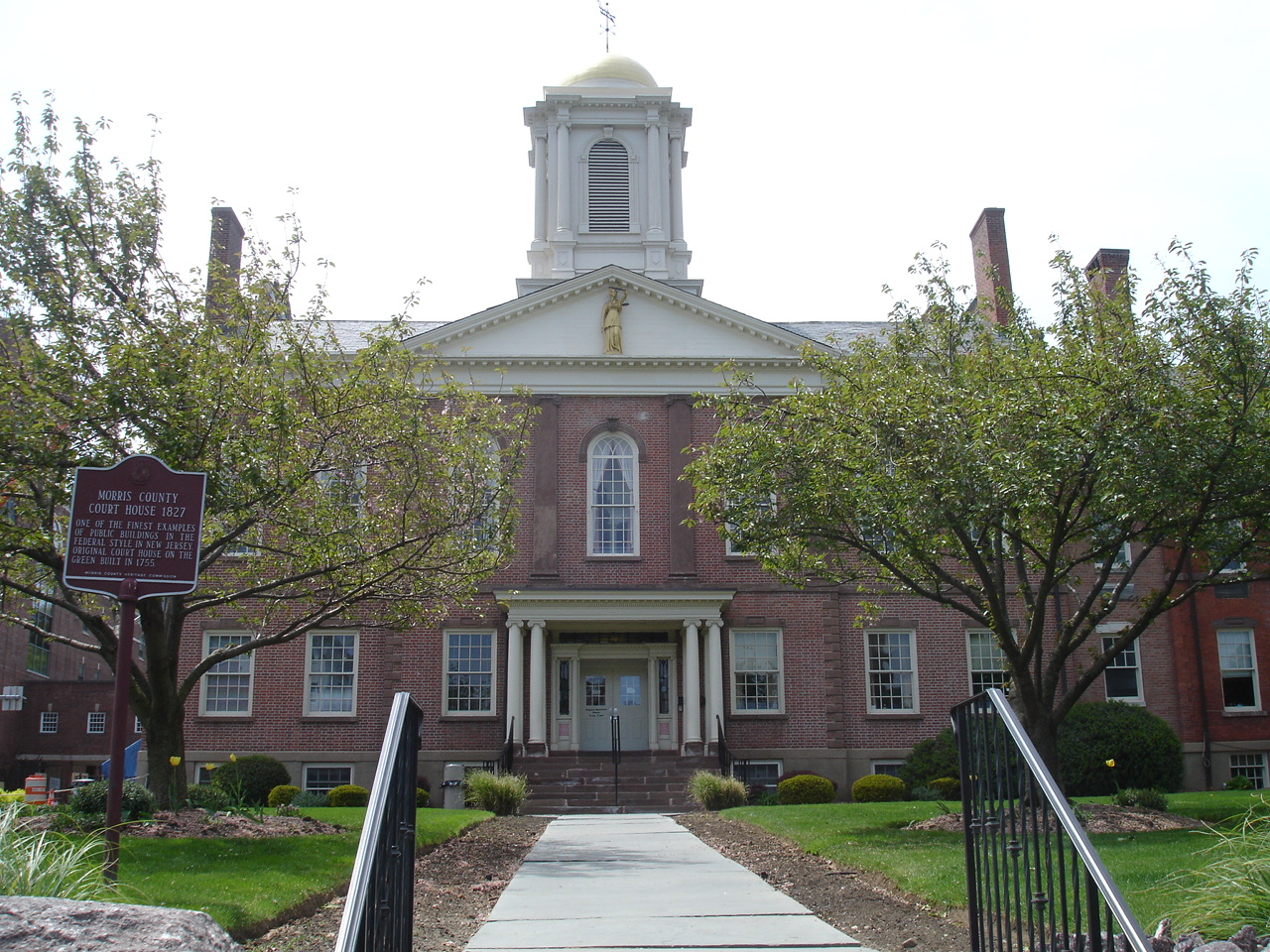 Morris County Courthouse